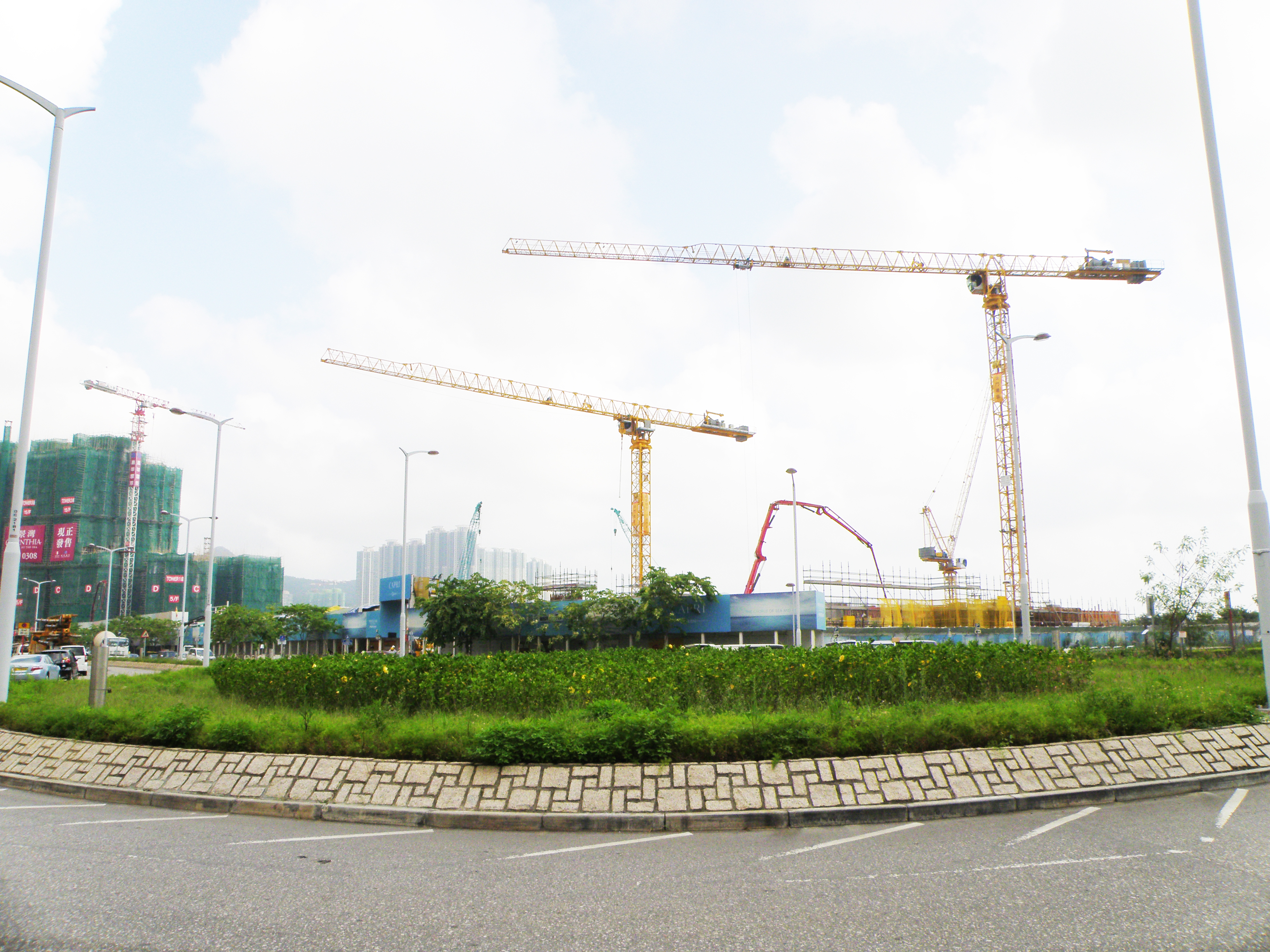 CAPRI in Tseung Kwan O, Hong Kong.